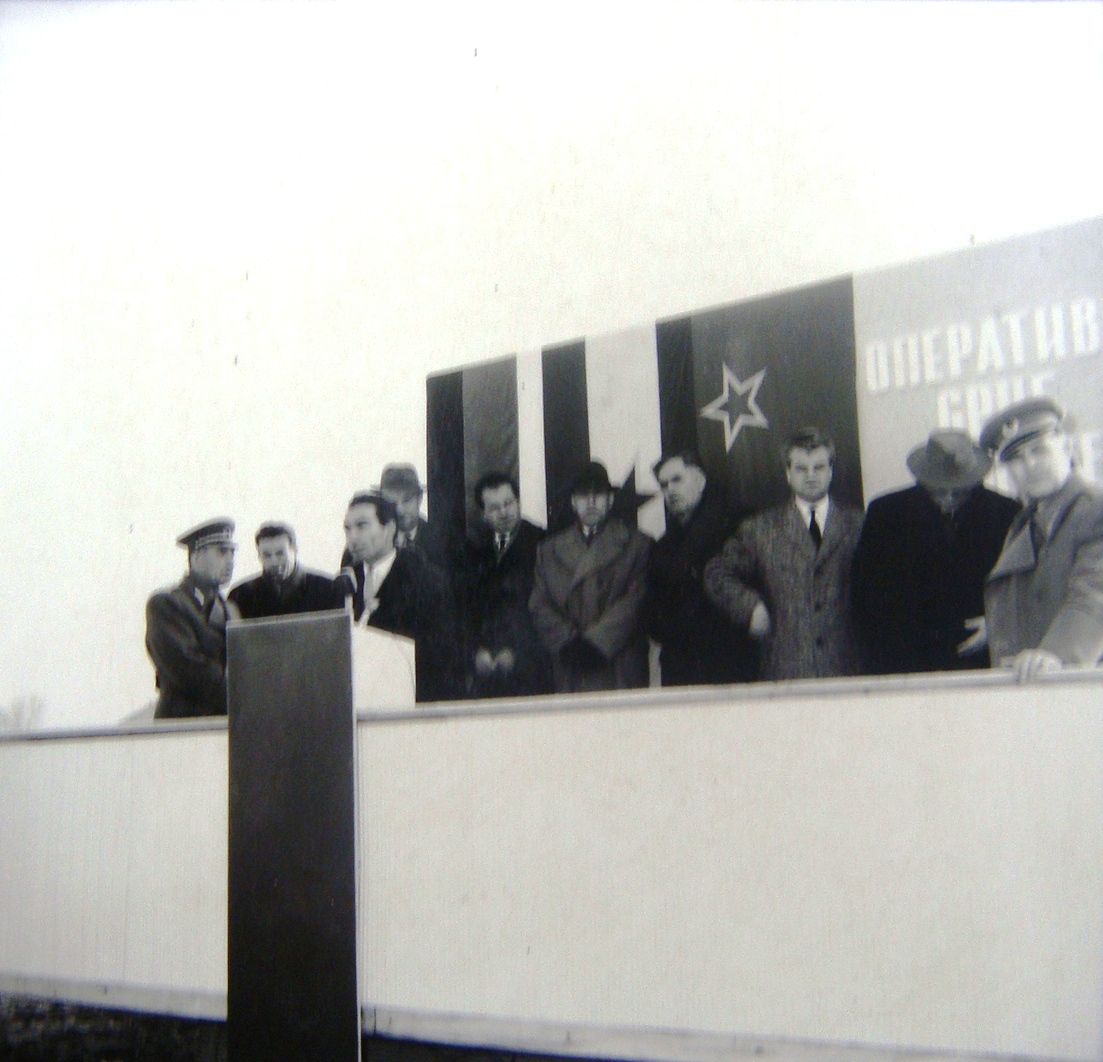 1963 Skopje earthquake: Formal handover of 204 apartments in the settlement of Lisice, builт by operative of the Republic of Montenegro. The representative of Montenegro welcomes the presents (3 January 1964) This media file is produced by Wikipedian in Residence in Category:Wikipedian in Residence at DARM in 2016.